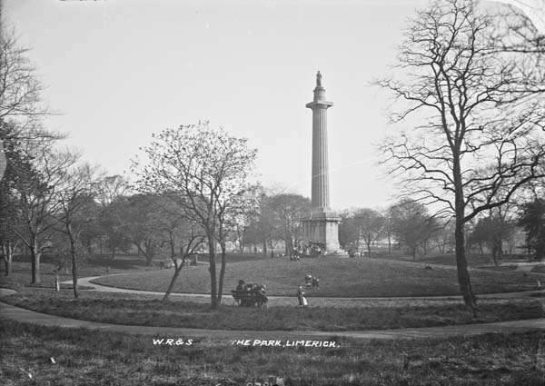 Photograph taken between 1900 and 1940 Part of: National Library of Ireland Eason Collection. For more photographs in this collection see National Library of Ireland catalogue: Reference number: EAS_2781